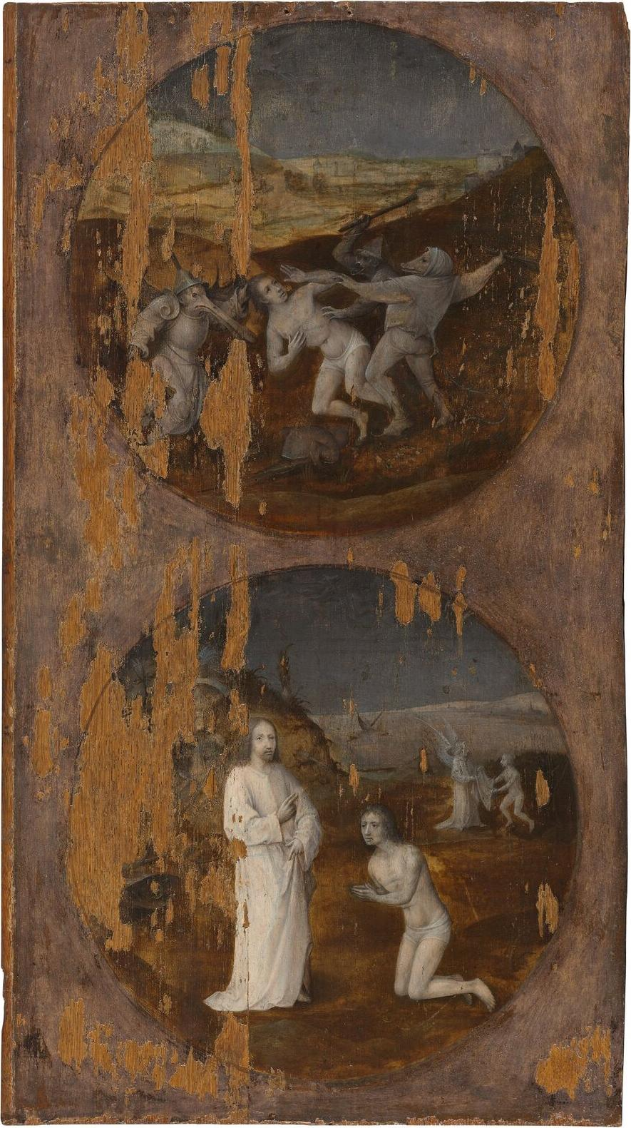 Fragment (outer right wing) of a triptych. See File:The Hell and the Flood P2.jpg for the inner right wing and File:The Hell and the Flood P1.jpg and File:The Hell and the Flood P3.jpg for the left wing.